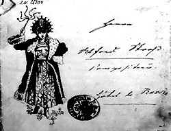 Leopold von Sacher-Masoch’s stationery. Leopold von Sacher-Masoch (1836–1895) - Austrian writer and journalist, who gained renown for his romantic stories of Galician life. The term masochism is derived from his name.